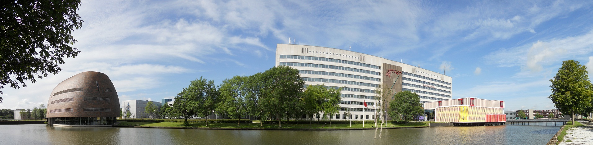 University of Groningen canmpus, Paddepoel